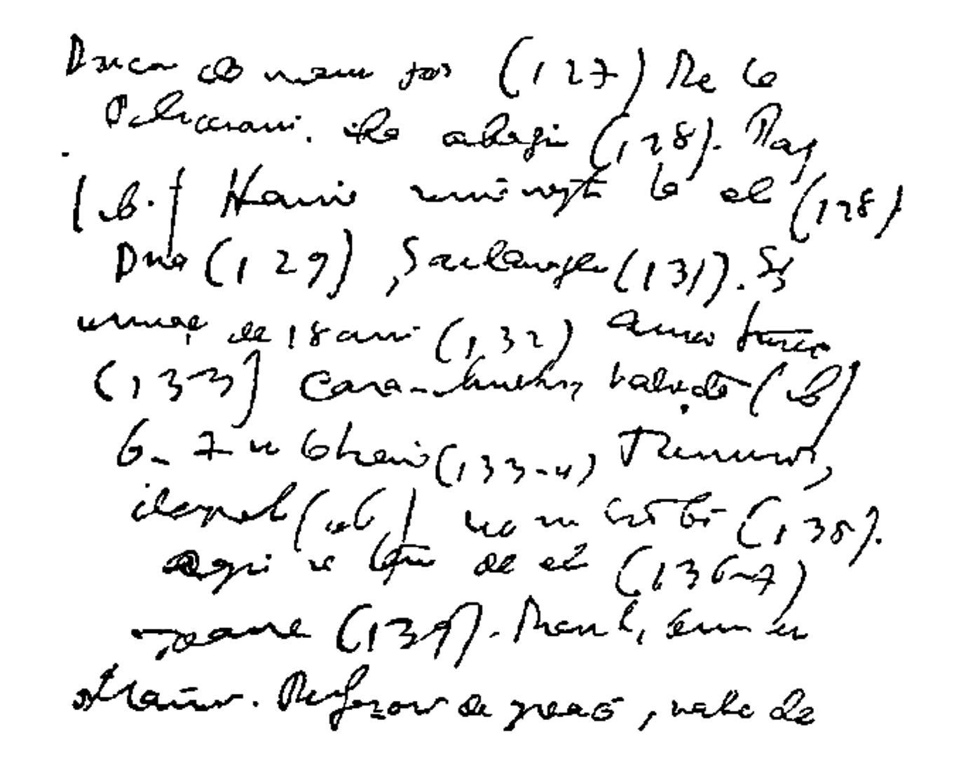 The stenography of Nicolae Iorga, the Romanian historian and politician.